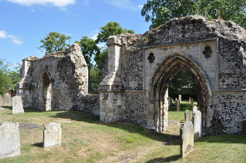 Bungay Priory. The remains of Bungay Priory. Benedictine nunnery founded 1183 dissolved 1536. St. Mary's parish church is probably the parochial nave to which the nuns' choir belonged. Most of the priory buildings were destroyed by... more